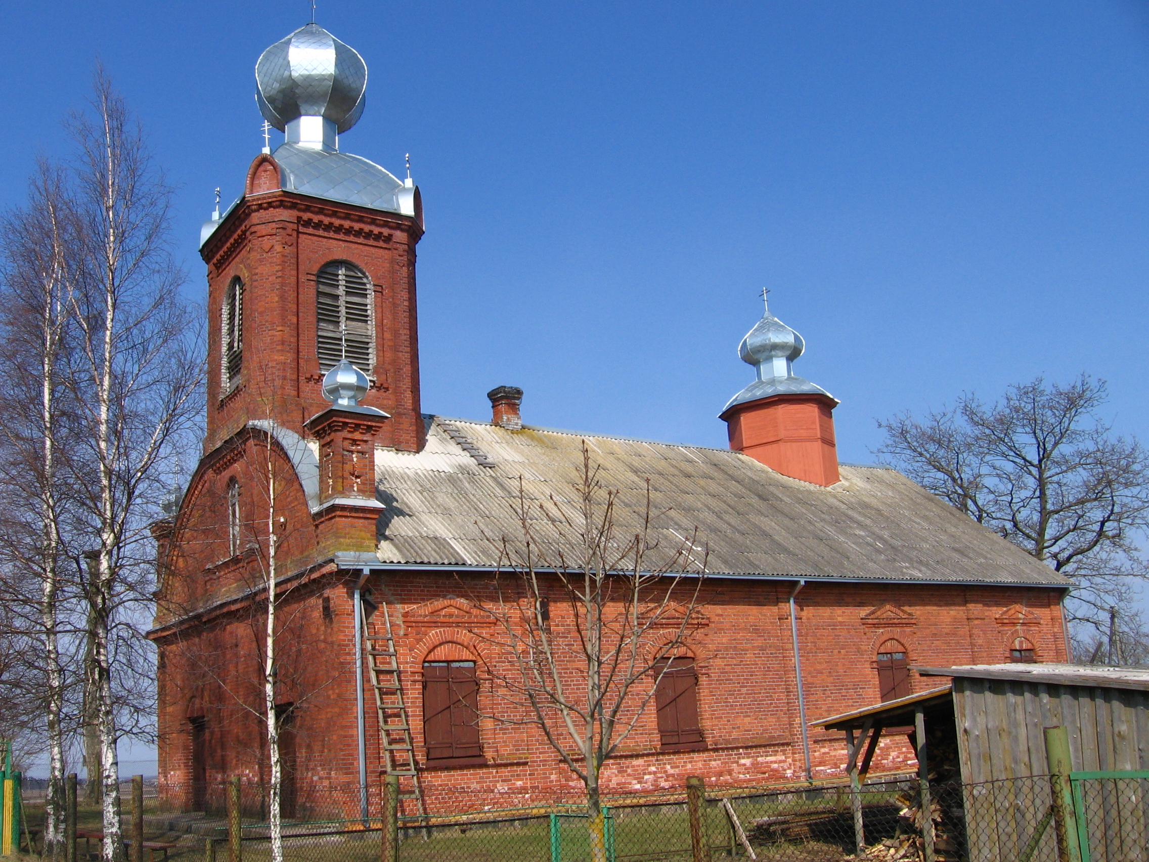 Russian Orthodox church of the Old Believers in Rimkai, Jonava district, Lithuania Rimkų sentikių cerkvė, Jonavos r.